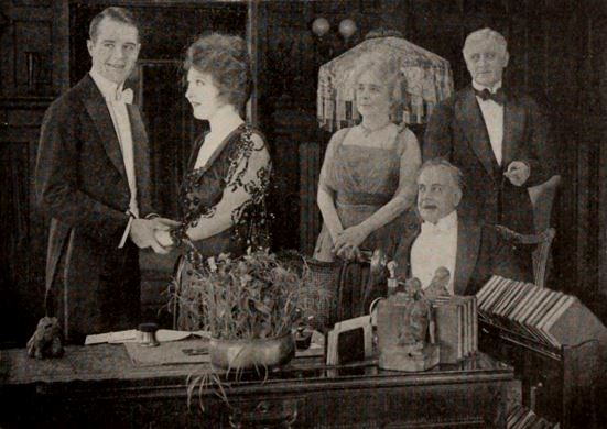 Still from the American drama film The Reckoning Day (1918) with Belle Bennett, Jack Richardson, and J. Barney Sherry, on page 47 of the October 26, 1918 Exhibitors Herald.